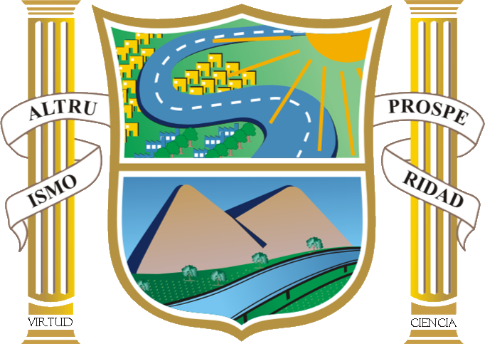 Escudo San Martín de Porres